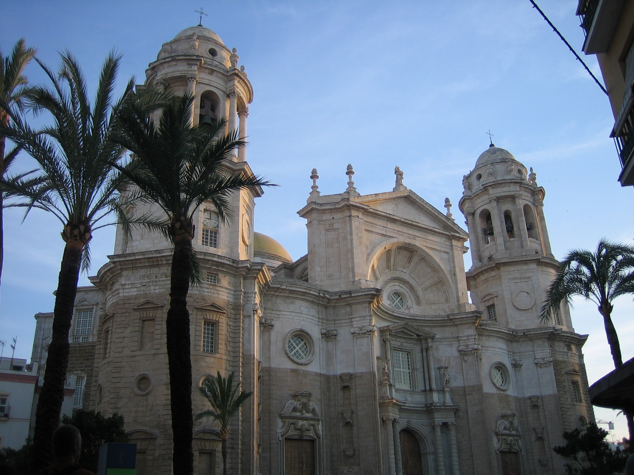 cathedrale de Cadiz, Andalucia